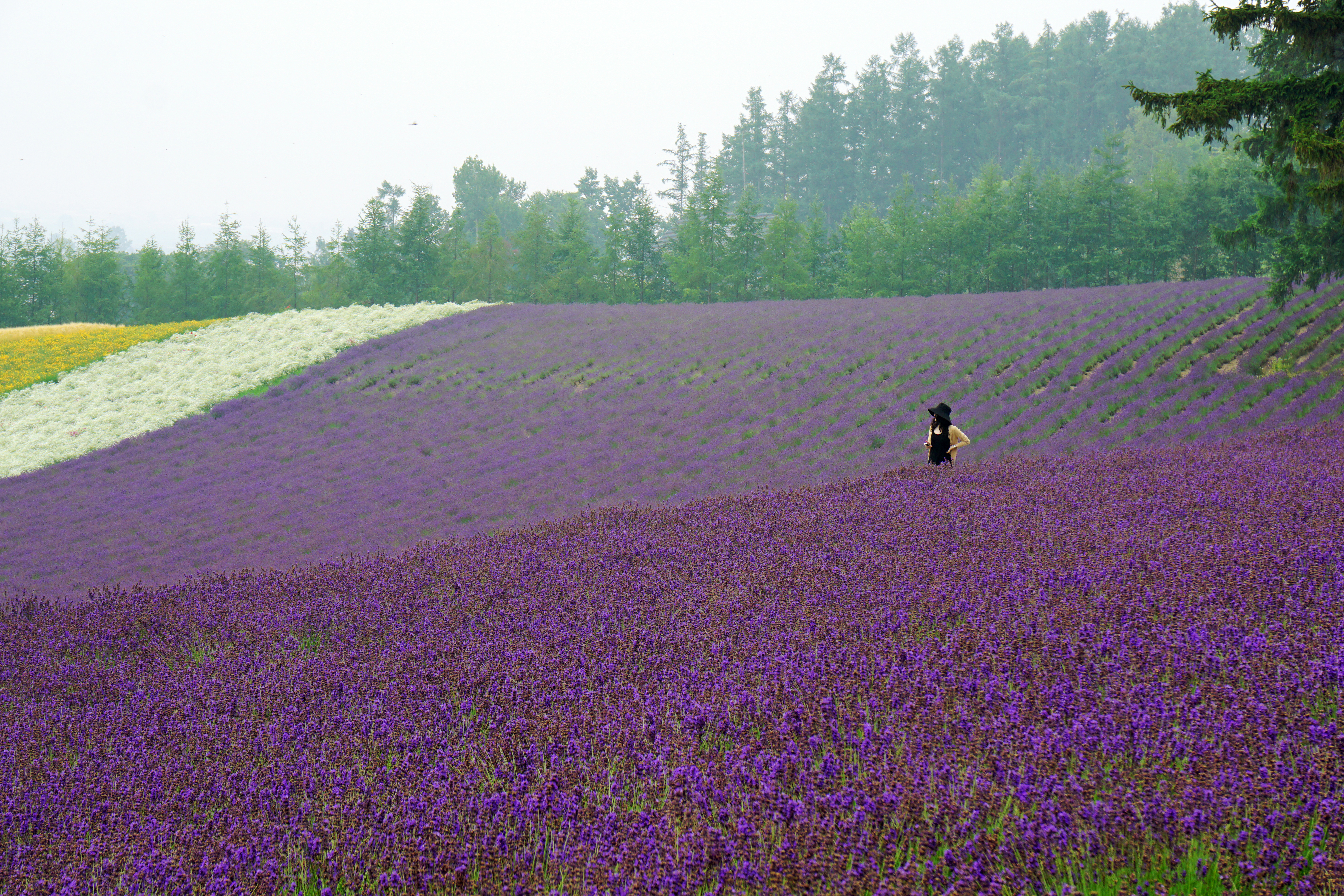 At Farm Tomita in Nakafurano, Hokkaido, Japan.